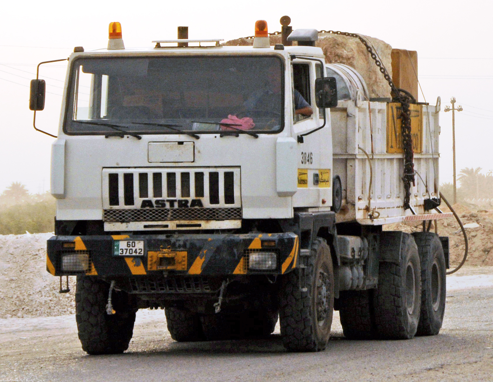 An Astra 6000-series (possibly an HD6) heavy-duty truck carrying sections of a massive generator enters Baghdad, Iraq, Oct. 10, 2008.